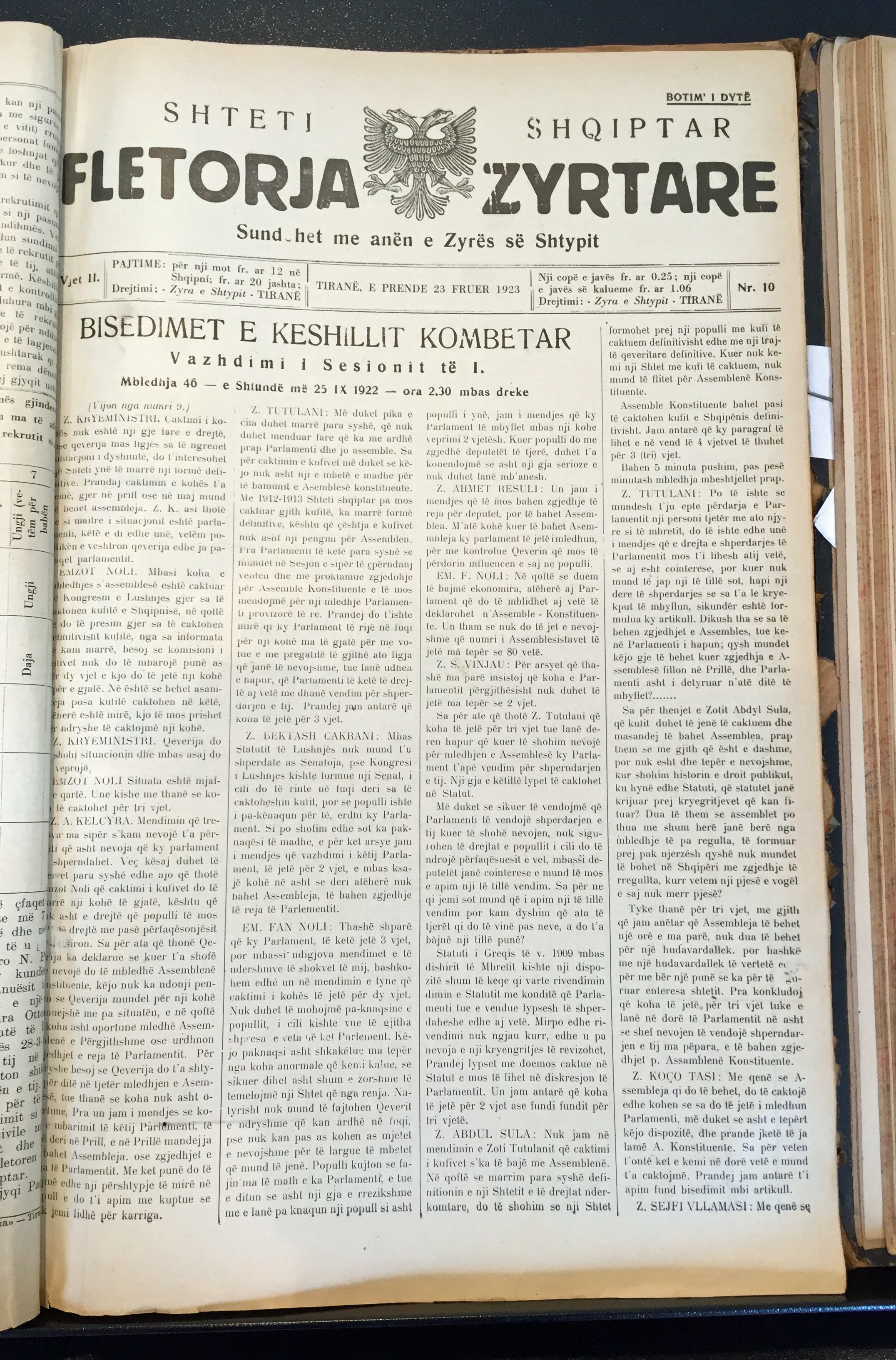 Fletorja zyrtare, Official Gazette of Albania, cover of Nr. 10, year 2 of February 23, 1923